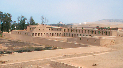 Pachacamac ancient site a few km south of Lima in Peru.